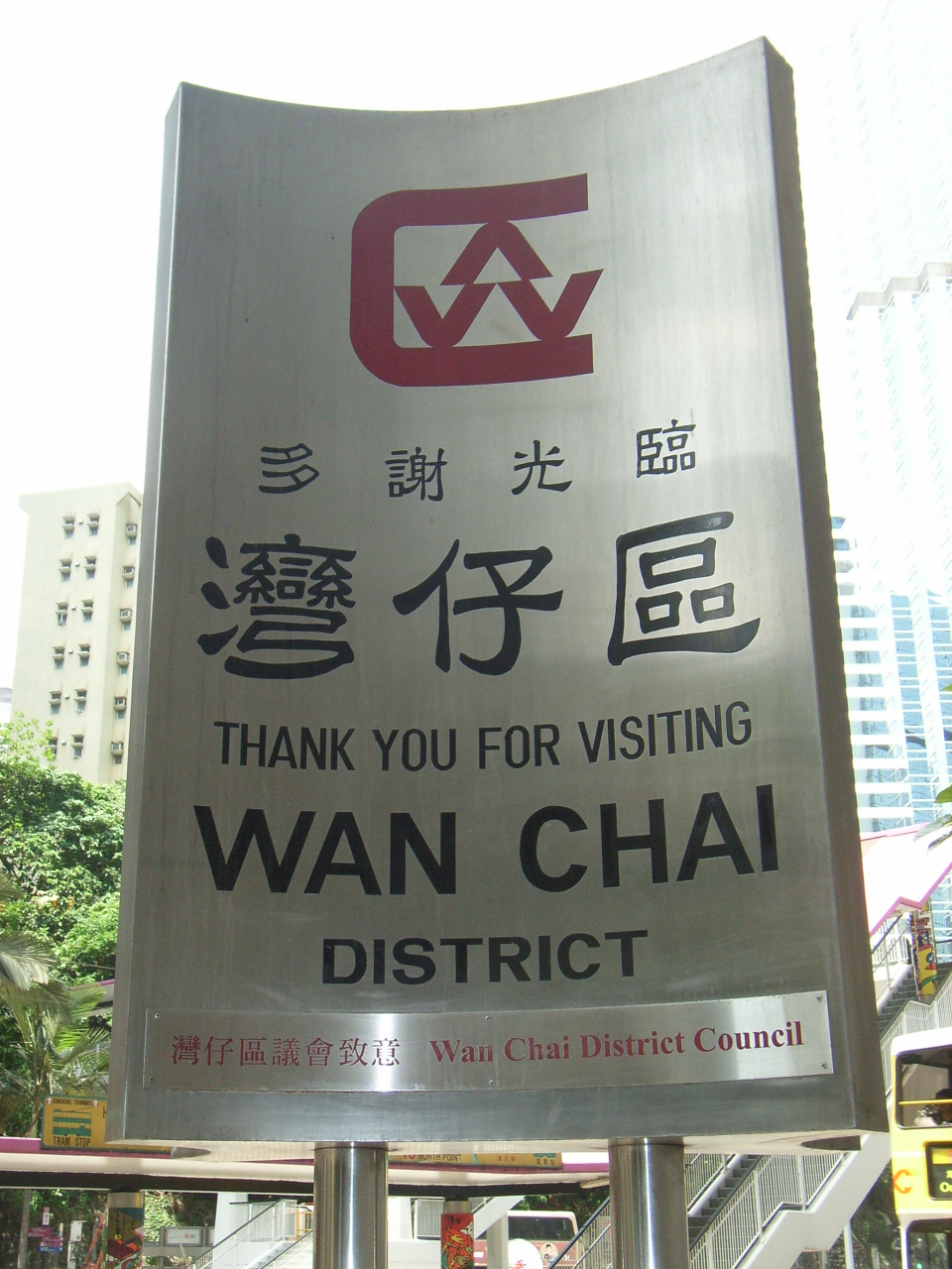 Welcome in Wan Chai Hong Kong